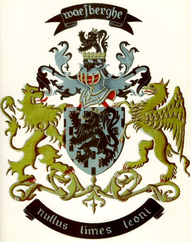 Van Waesberghe